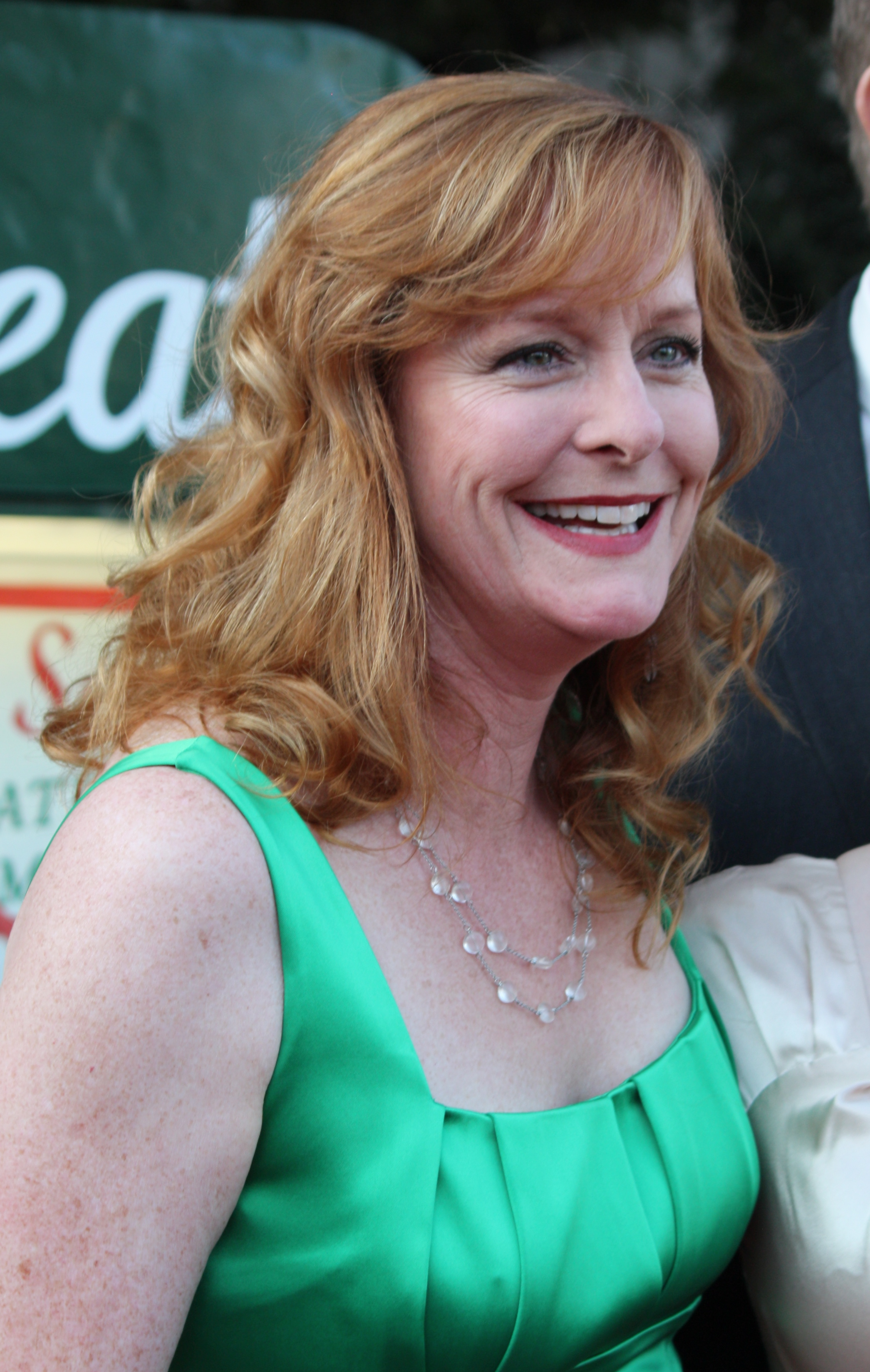 McDonough at The Waltons 40th Anniversary in 2012